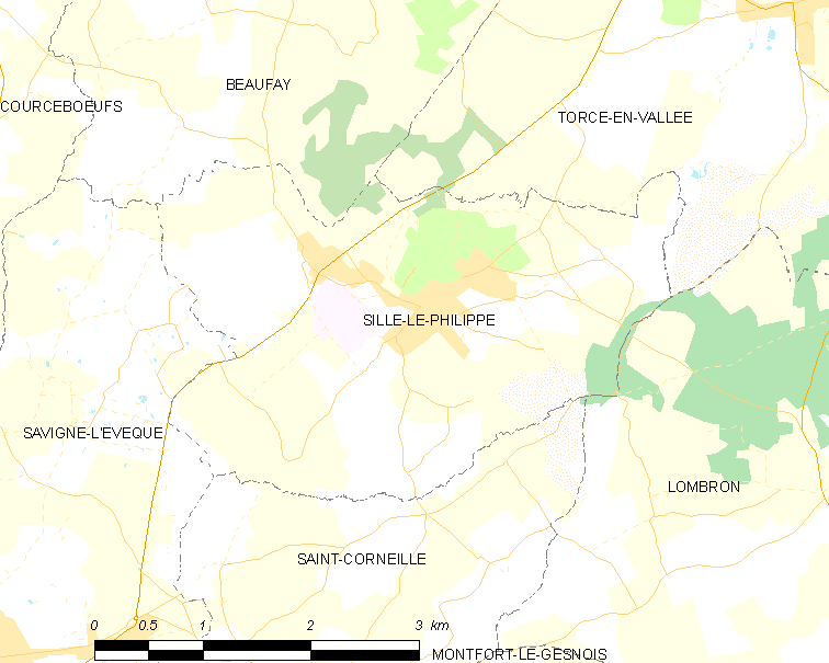 Map of French municipality